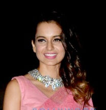 Kangna at Shahid Kapoor & Mira Rajput's wedding reception 13 July 2015